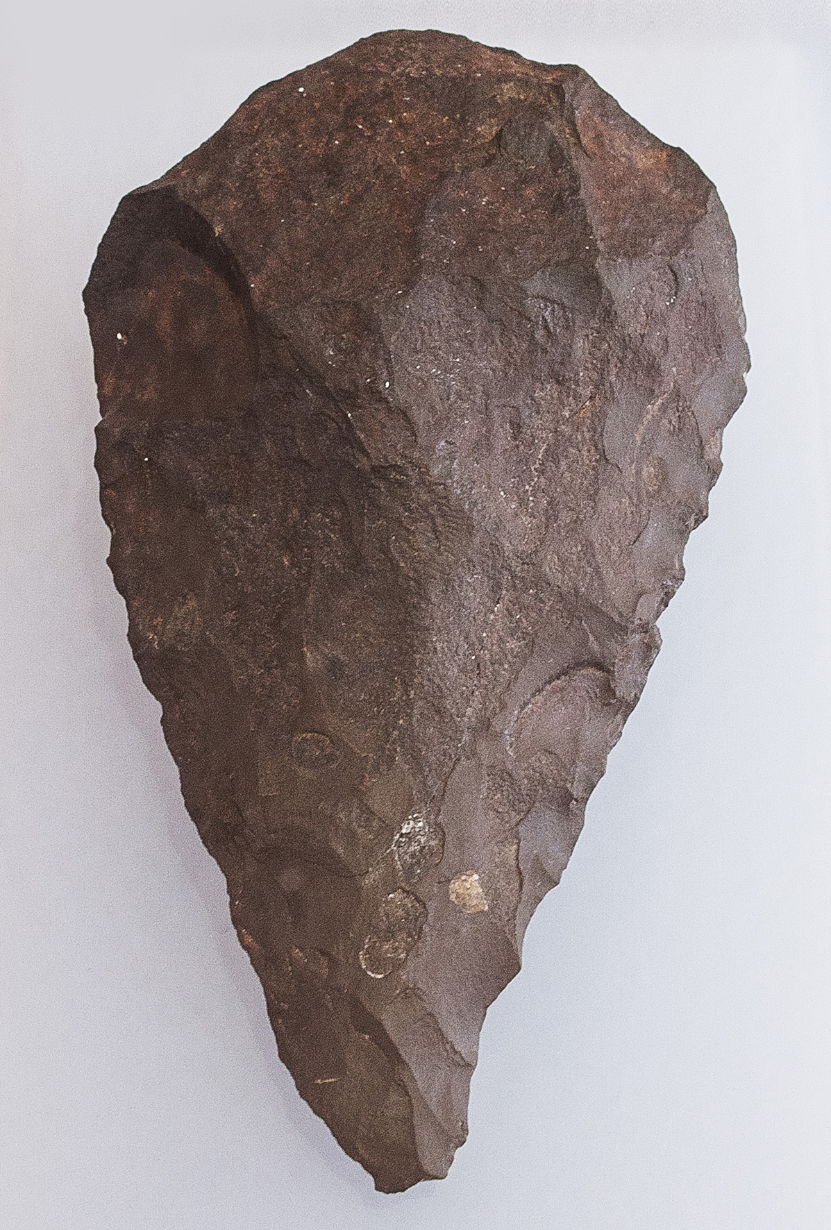 The hand axe from Bad Salzuflen in the Museum of the State of Lippe in Detmold, District of Lippe, North Rhine-Westphalia, Germany.